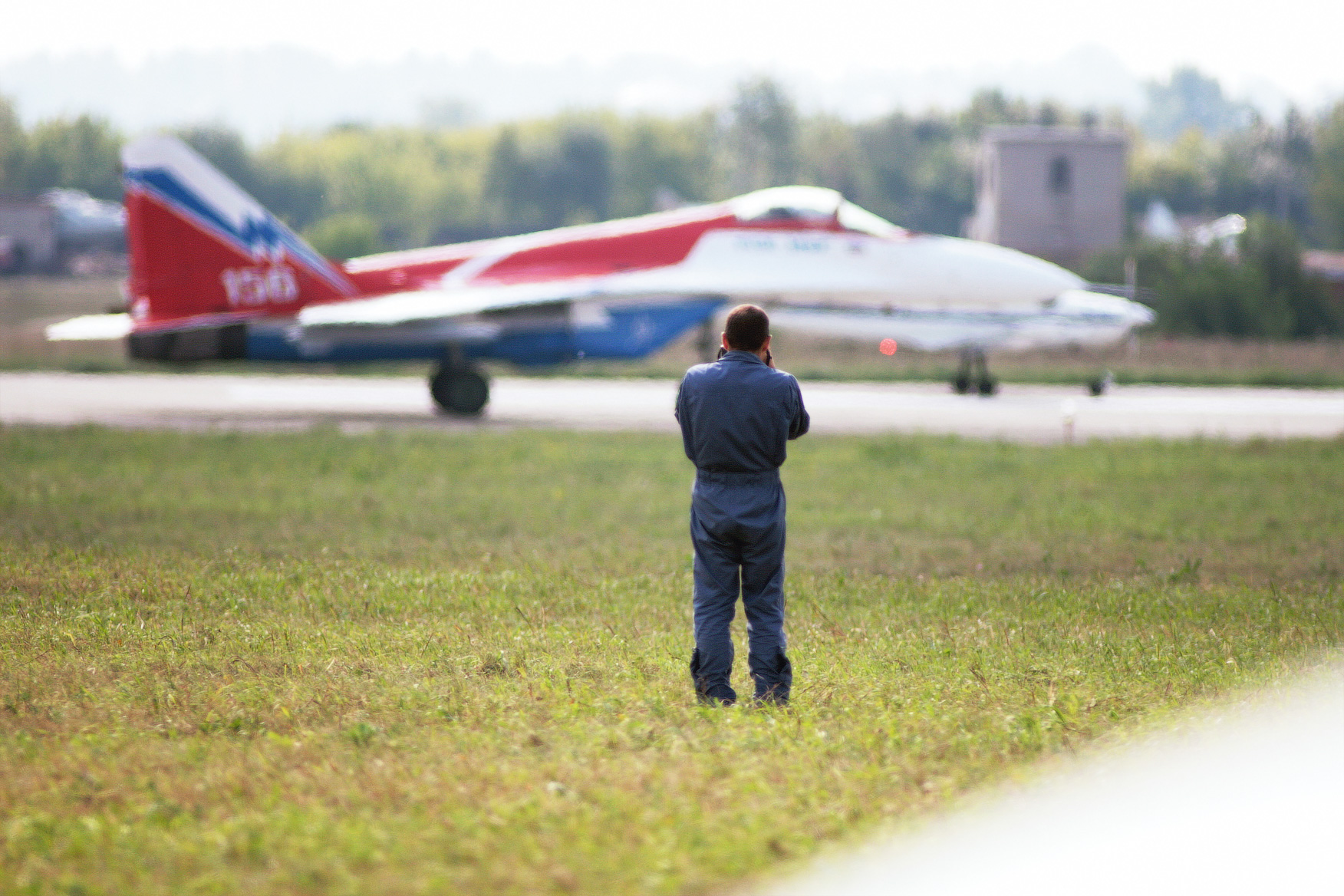 Patrouille de France's pilot takes a shots of MIG-29 at MAKS 2007